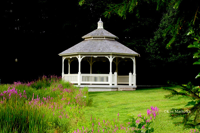 Grace Lord Park Gazebo